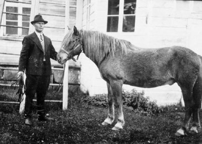 Hannes Kopsakangas with the horse Jaska. "(...) Jaska, owned by the muncipality, a sturdy faithful working horse. He went to the war twice. He returned from the Winter War. The joy of the other horses was boundless when they met Jaska returning from the war. (...) But when he had to go the second time, he did not return."